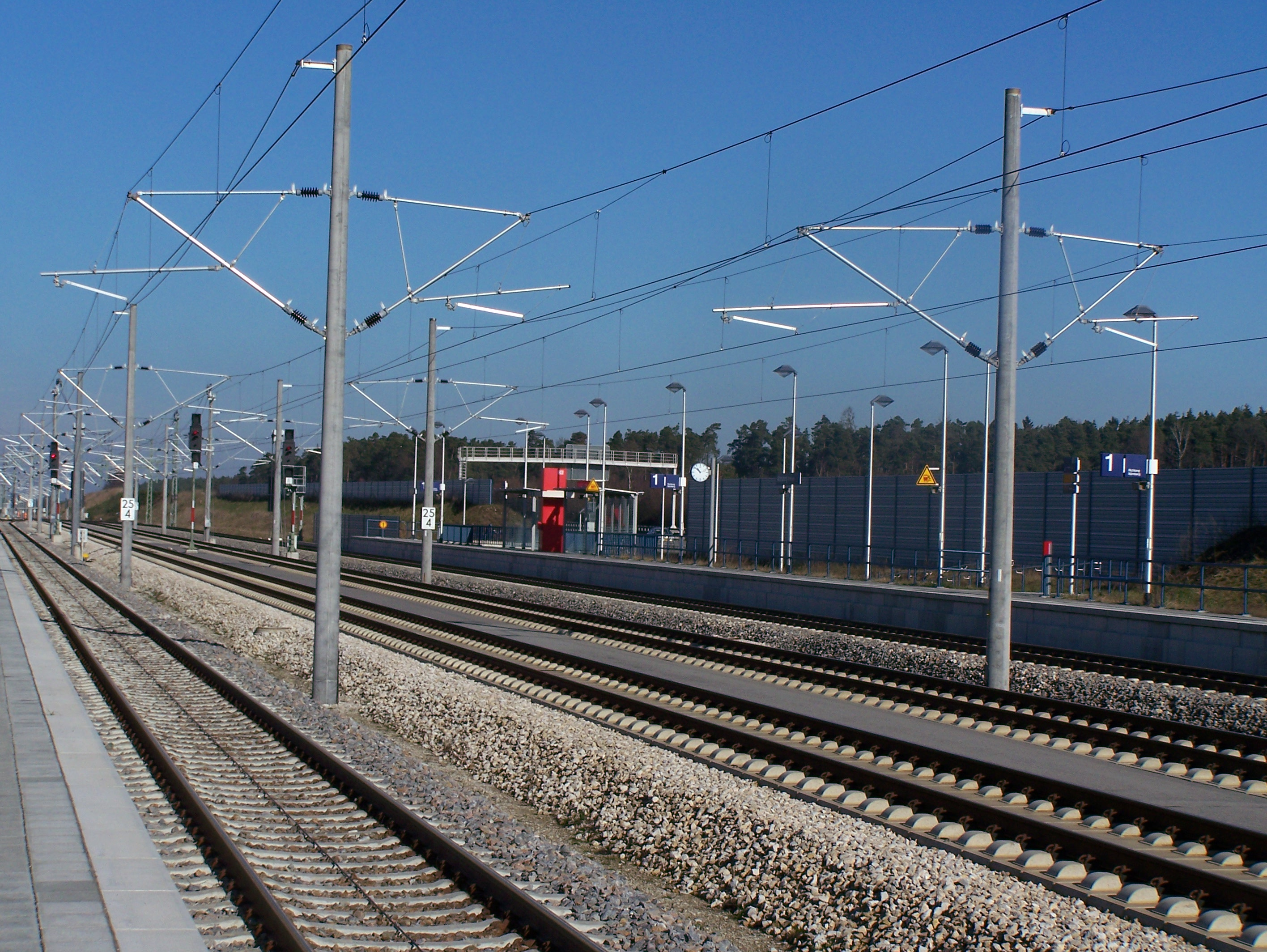 Allersberg (Rothsee) railway station, Allersberg, Germany.